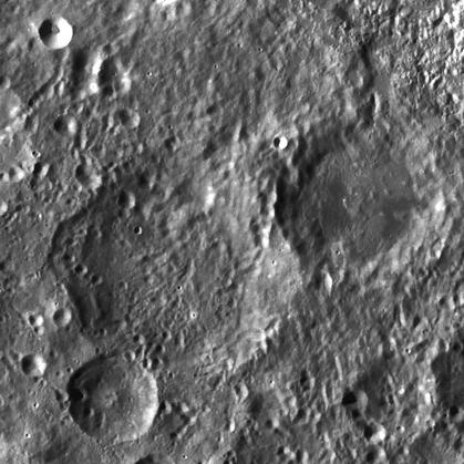 Neujmin at left center, heavily modified by Tsiolkovskiy ejecta and secondaries; dark-floored Waterman at right center